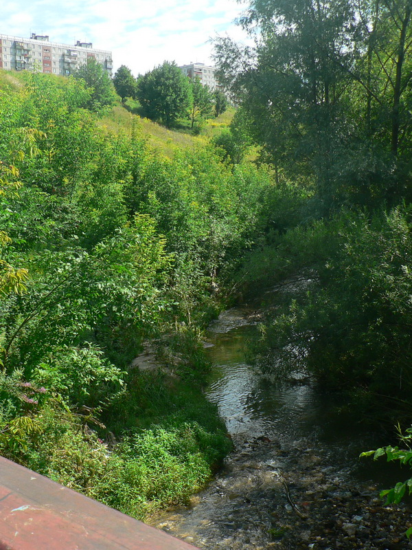 The view of Verkhniye Pechory from the footbridge of Kova or Starka river